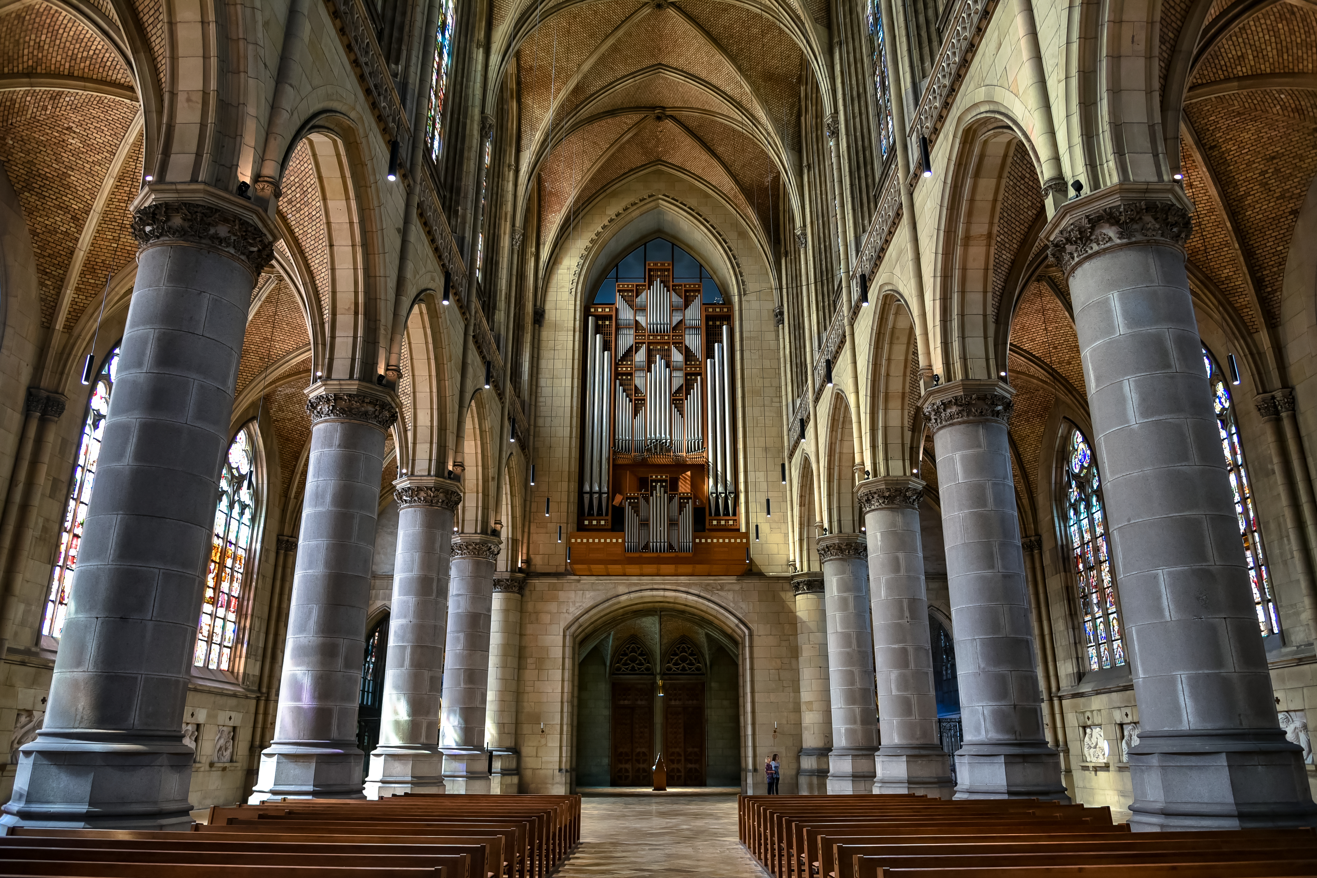 Mariä-Empfängnis-Dom (Linz, Austria)